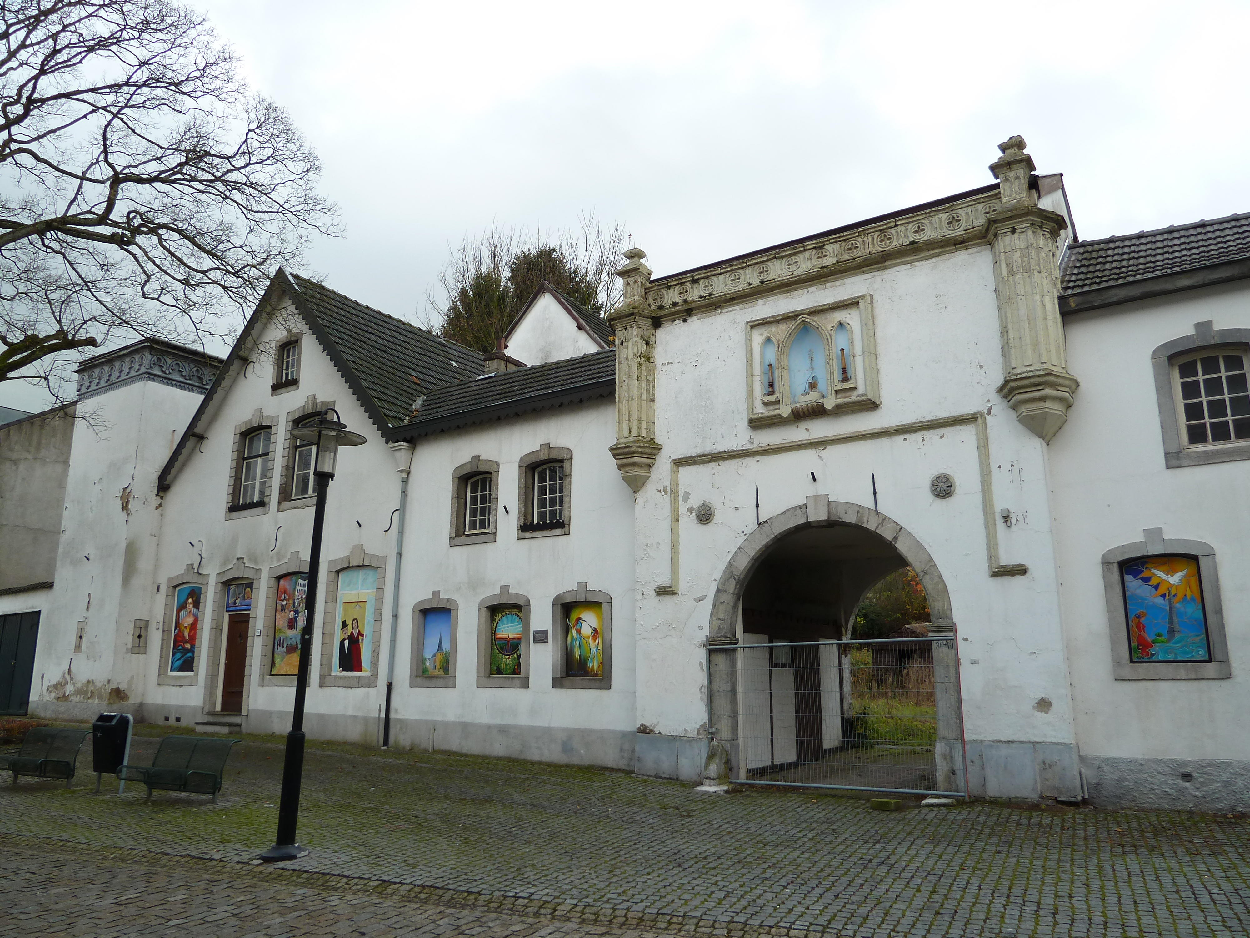 Von Clermontplein 34, Vaals, Limburg, the Netherlands